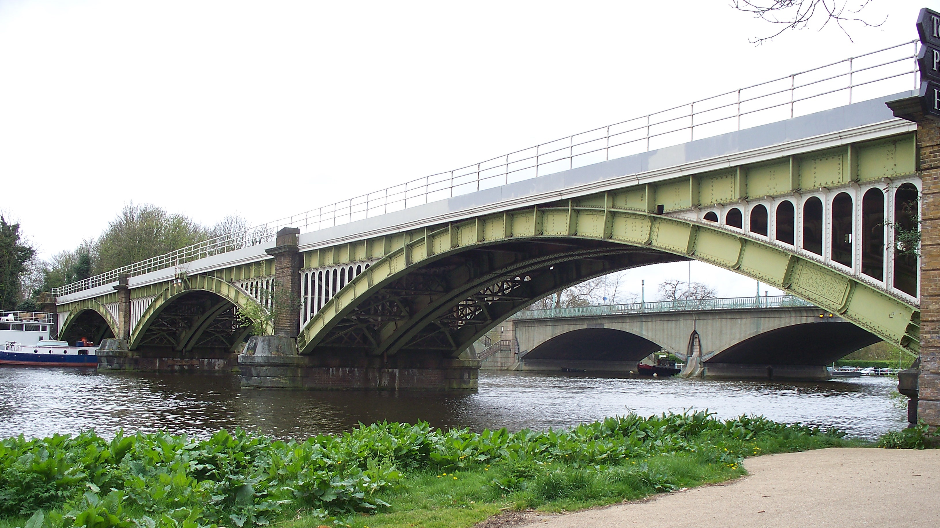 Richmond Railway Bridge, Richmond, London. Photograph taken in a public location in the UK of a building on permanent public display, and exempt from copyright under Section 62 of the Copyright Designs & Patents Act 1988 ("it is not an infringement of copyright to film, photograph, broadcast or make a graphic image of a building, sculpture, models for buildings or work of artistic craftsmanship if that work is permanently situated in a public place or in premises open to the public")